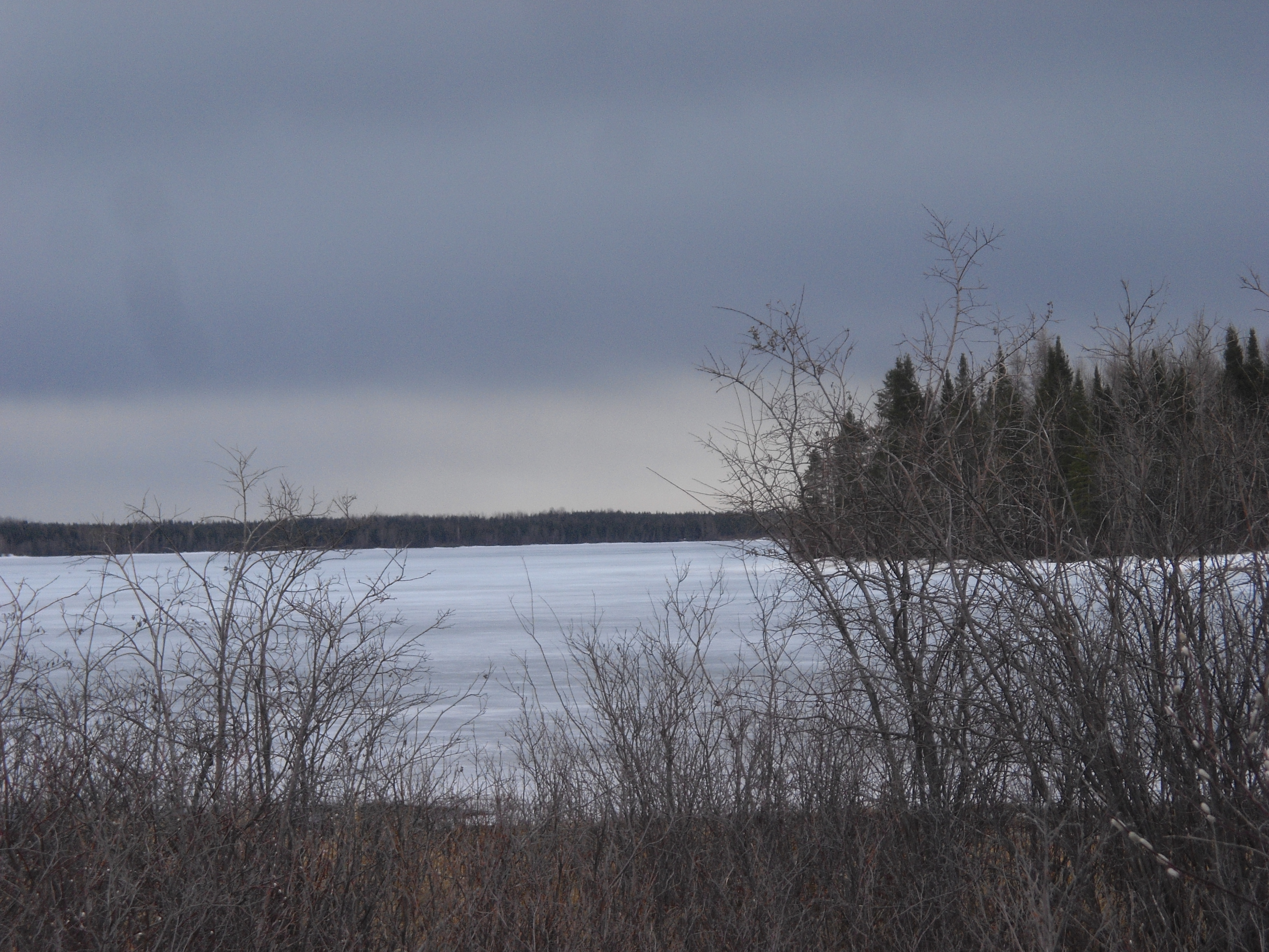 Early morning in April, 2012, looking towards the mainland from the main island of Kitchenuhmaykoosib Inninuwug First Nation.